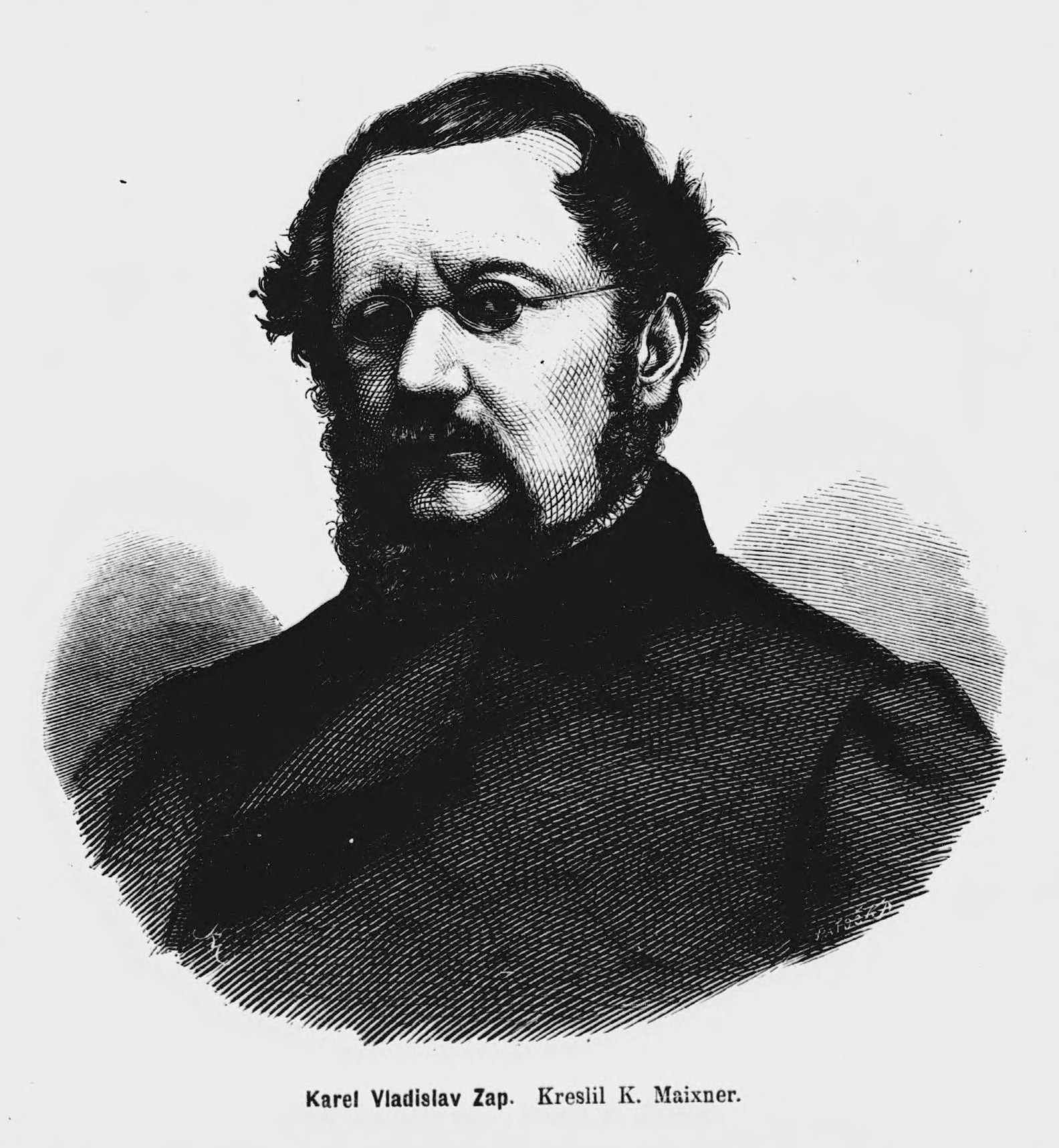 Portrait of Karel Vladislav Zap (1812-1871), Czech historian and writer